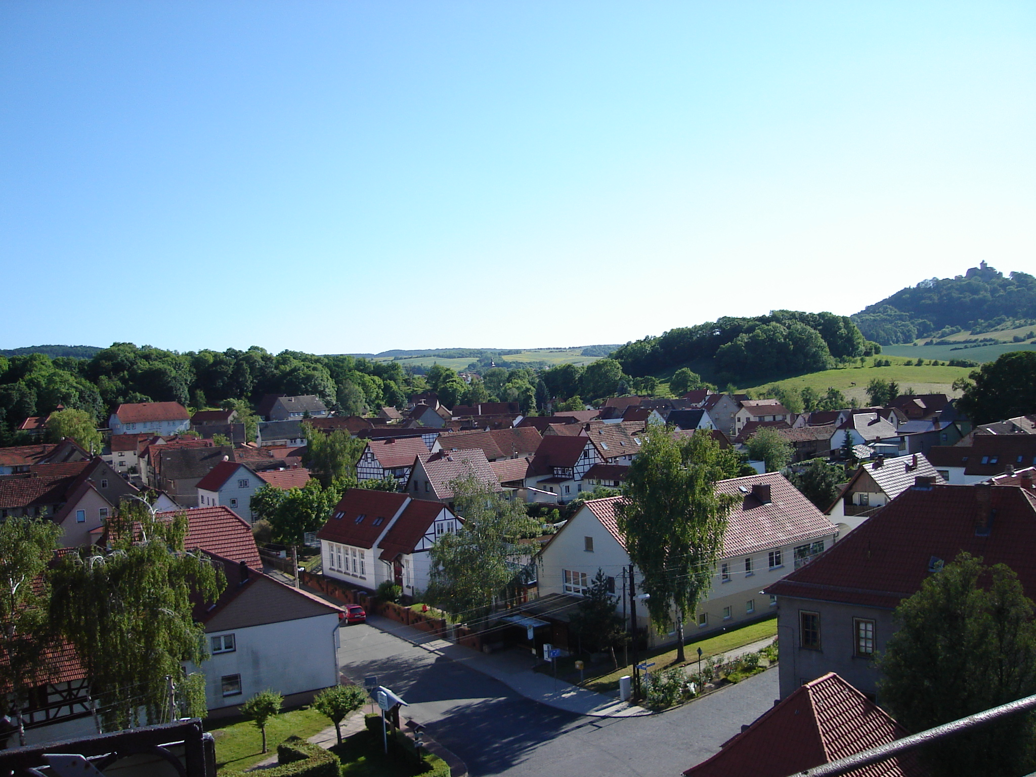 Haarhausen (Amt Wachsenburg), Thuringia, Germany, View from the church tower